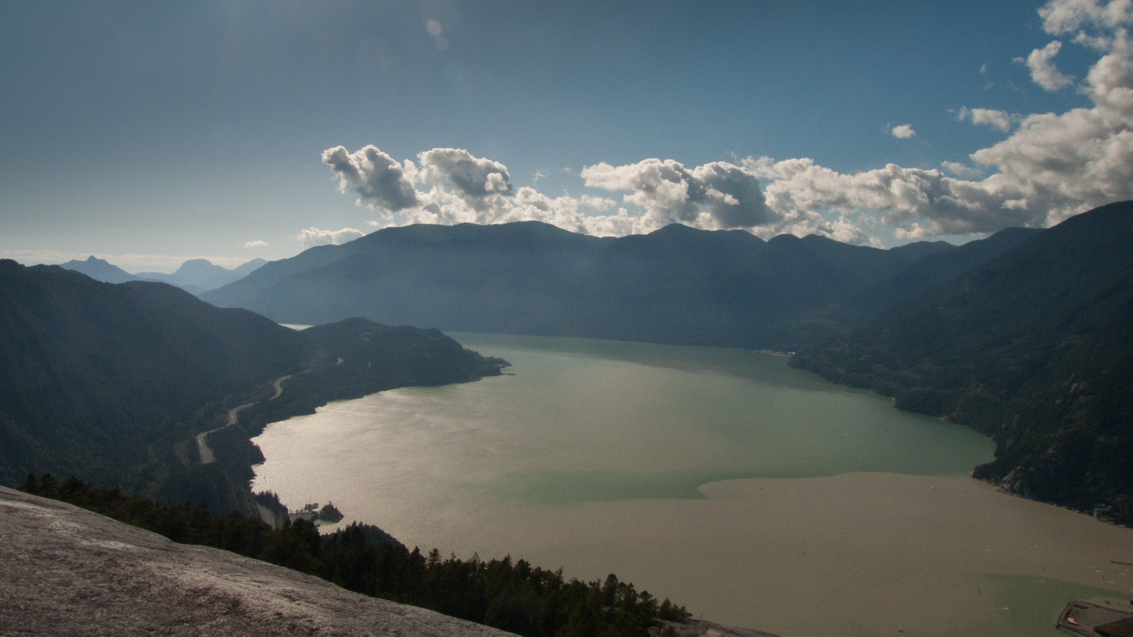 View from the Stawamus Chief